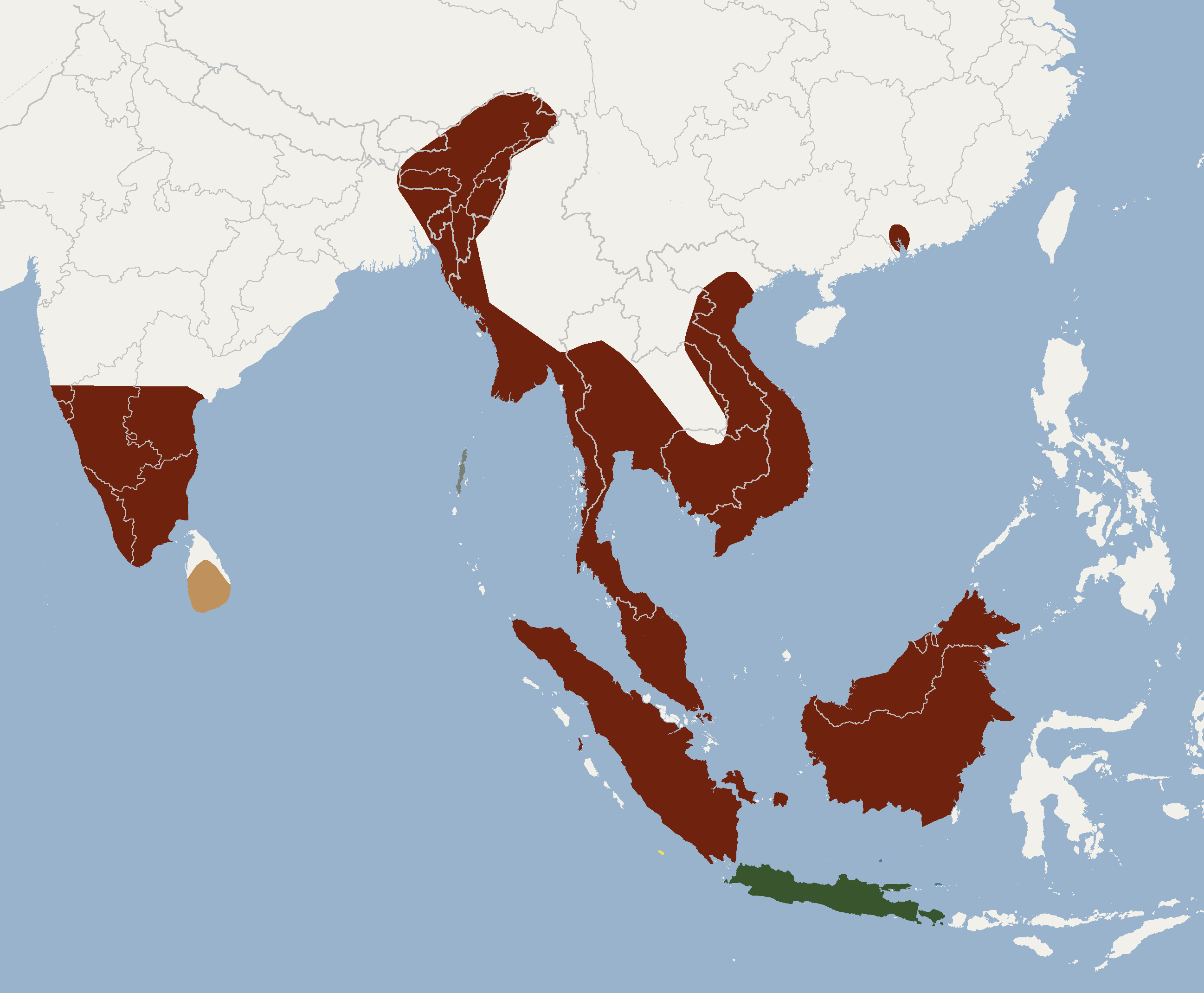 According to Francis, 2008, Smith & Xie, 2008, IUCNRedlist